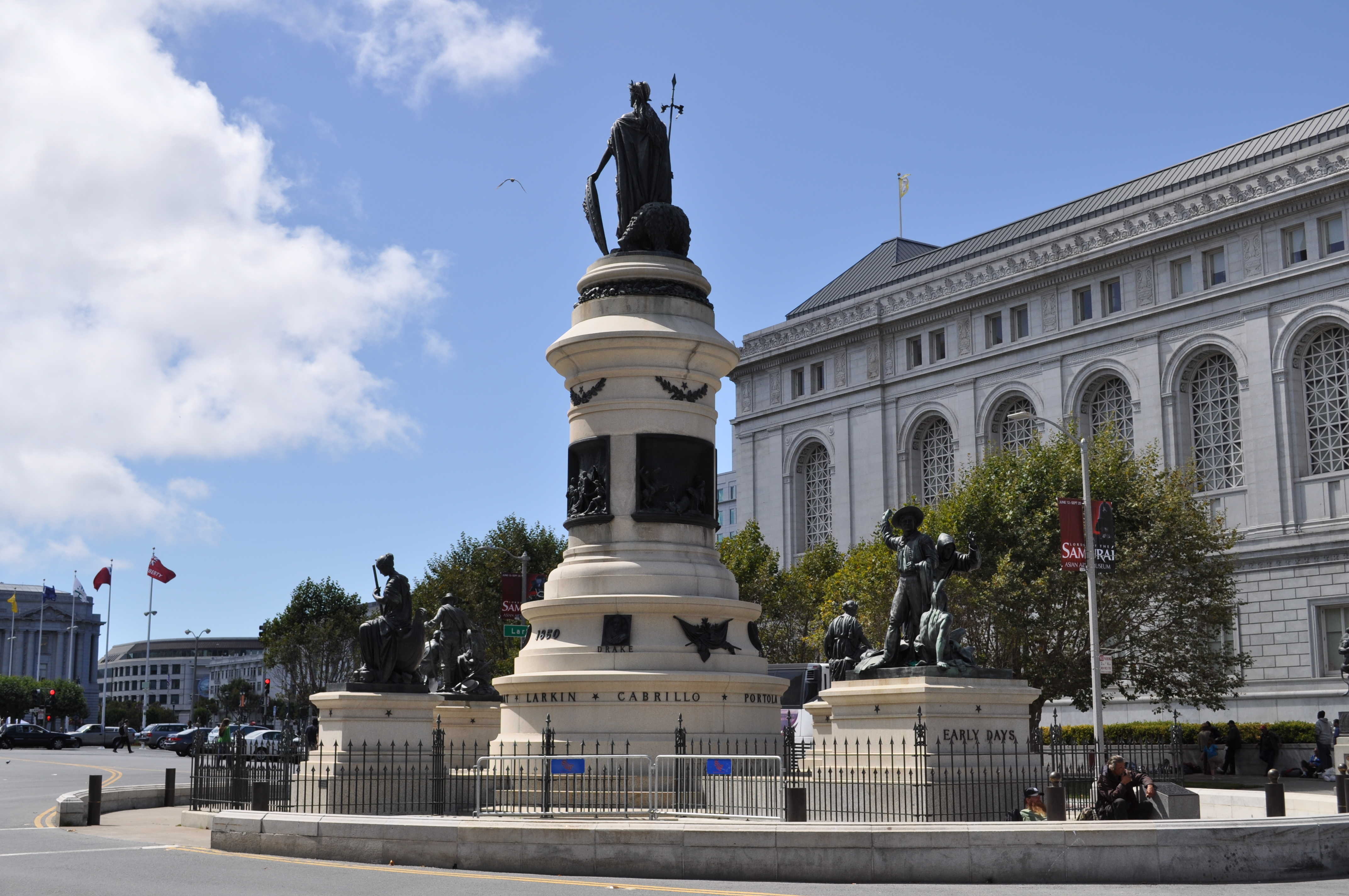 Rear view of the James Lick/Pioneer Memorial, located between the San Francisco Main Library (not shown) and the Asian Art Museum (shown), San Francisco, California, USA. The monument is among the sites in the San Francisco Civic Center Historic District.